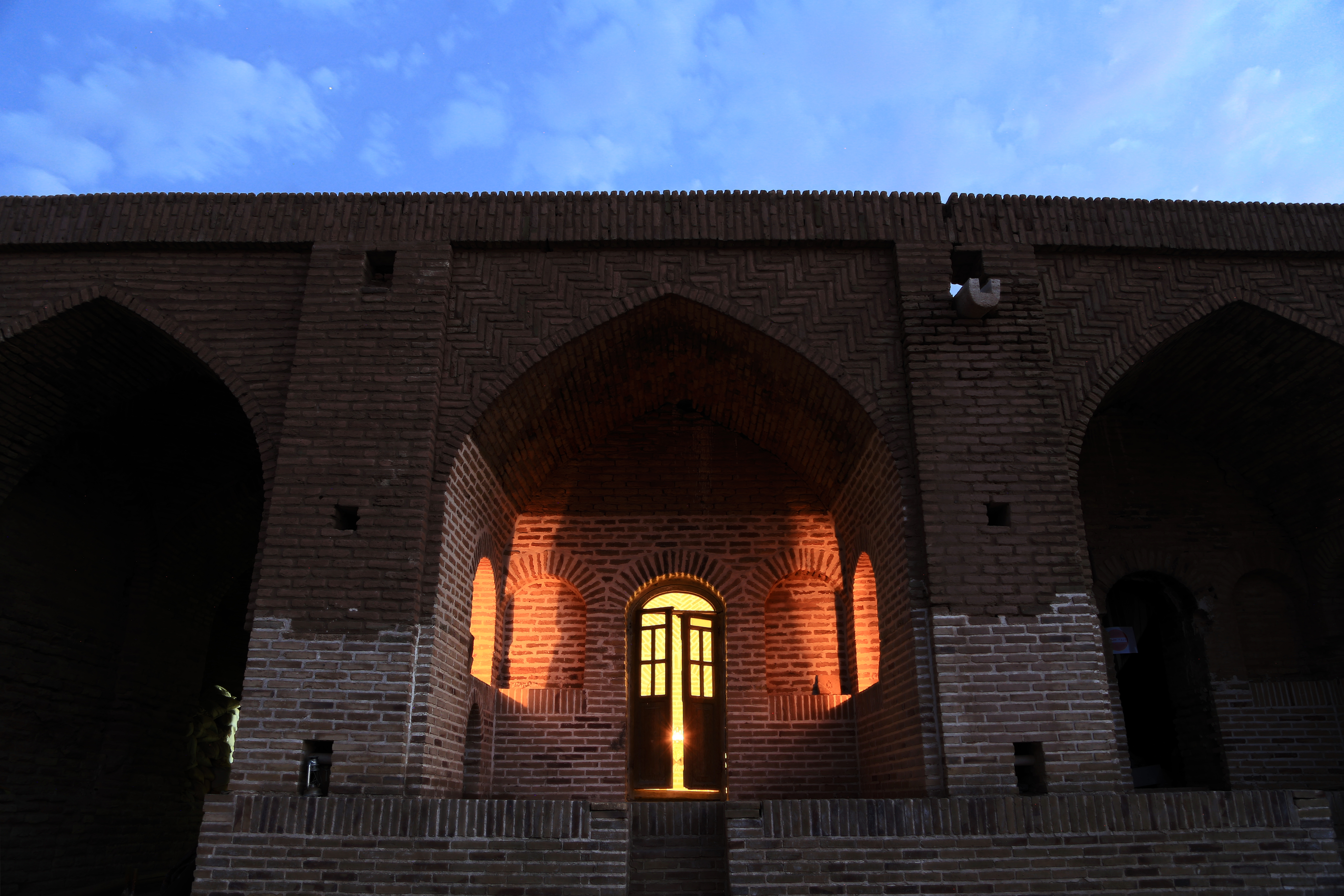 Deir-e Gachin Caravansarai is one of the greatest caravansarais of Iran which is located in the center of Kavir National Park. Its unique qualities is the reason it is called “Mother of Iranian Caravansarais”. It is located in the Central District of Qom County, 80 kilometers north-east of Qom (60 kilometers into Garmsar Freeway) and 35 kilometers south-west of Varamin. (Photo by: Mostafa Meraji, wiki loves monuments 2018)